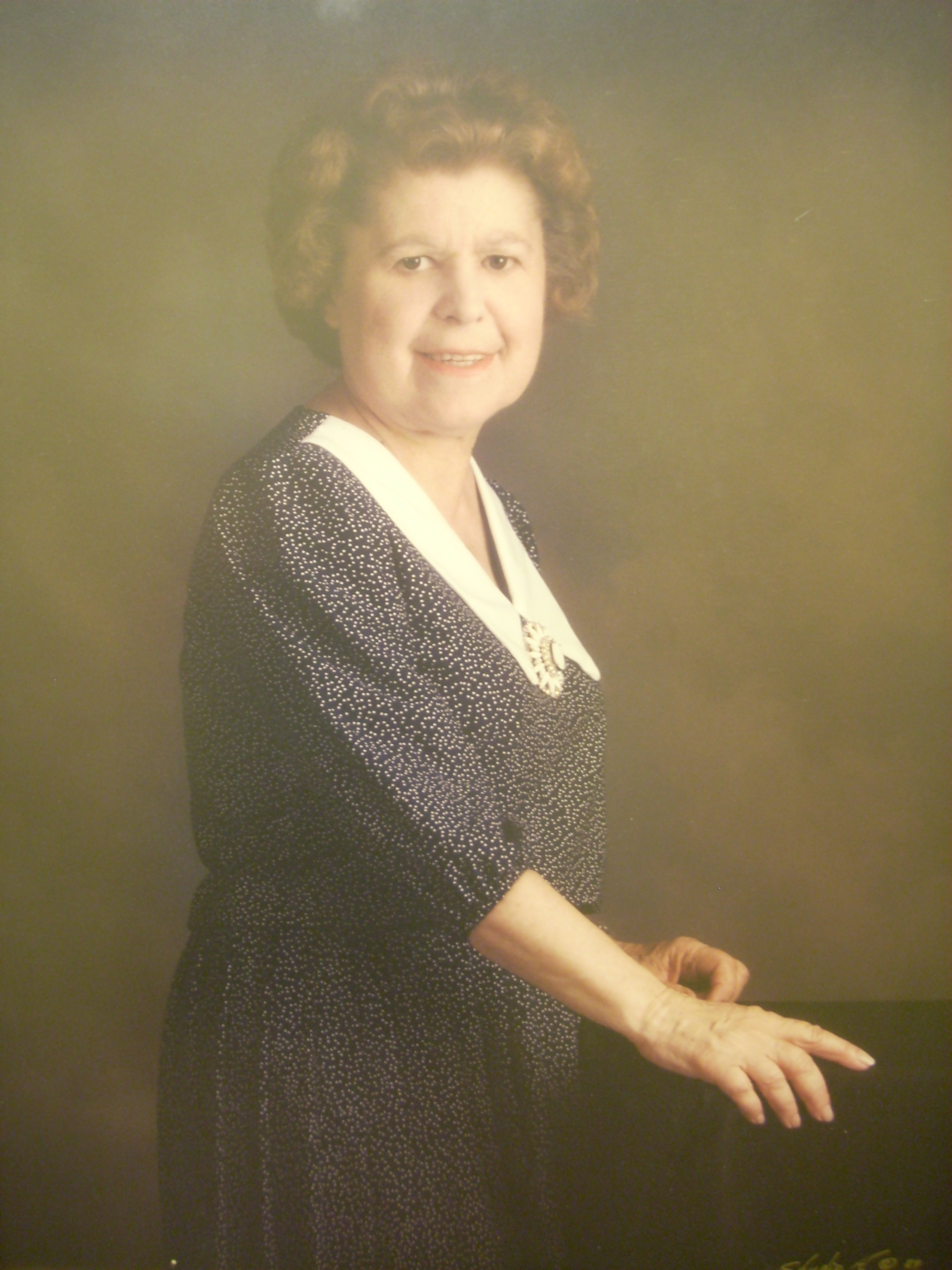 Veronica Maz